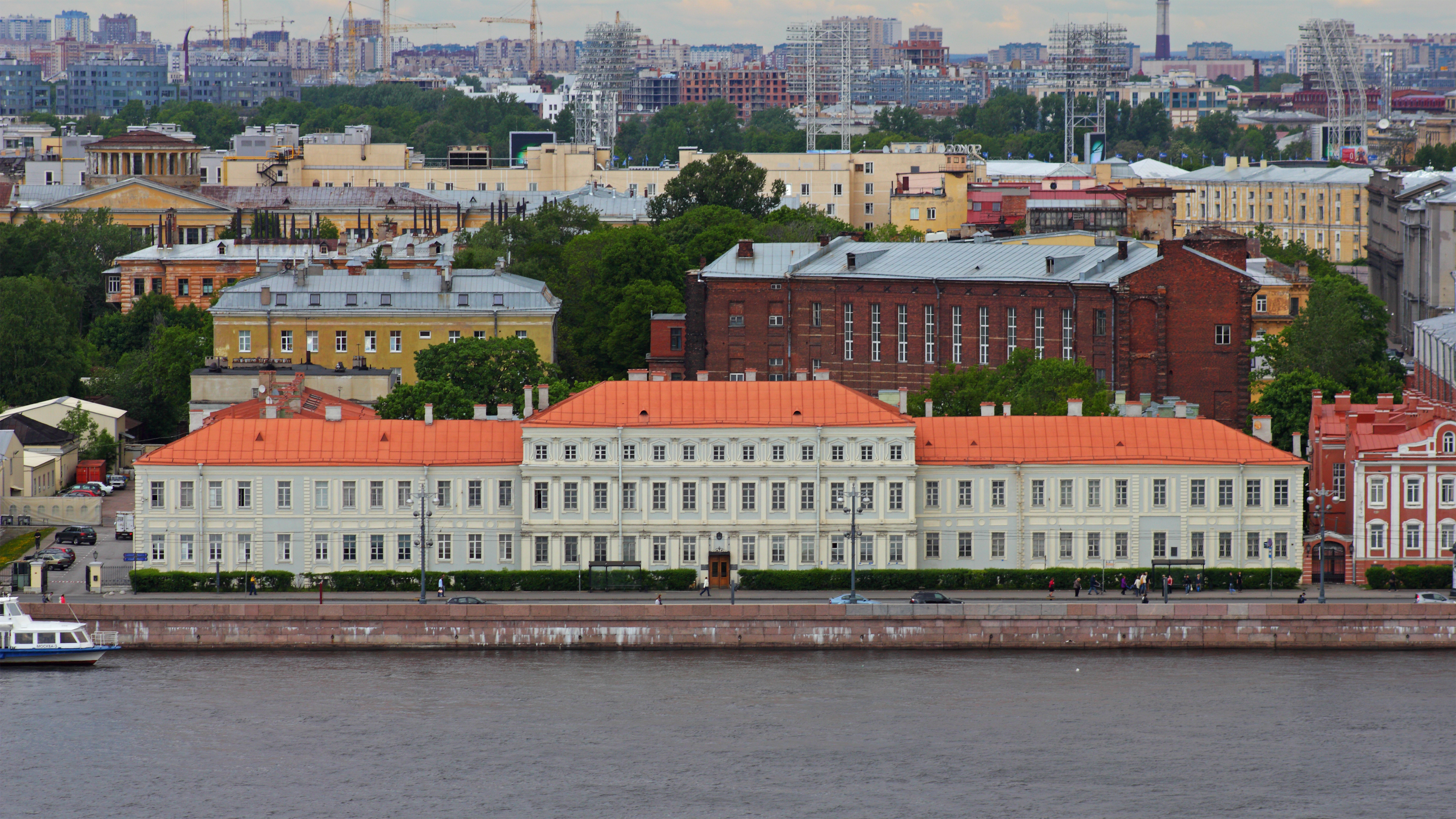 Saint Petersburg, Russia. Saint Petersburg State University, as seen from the Cathedral of St. Isaac.